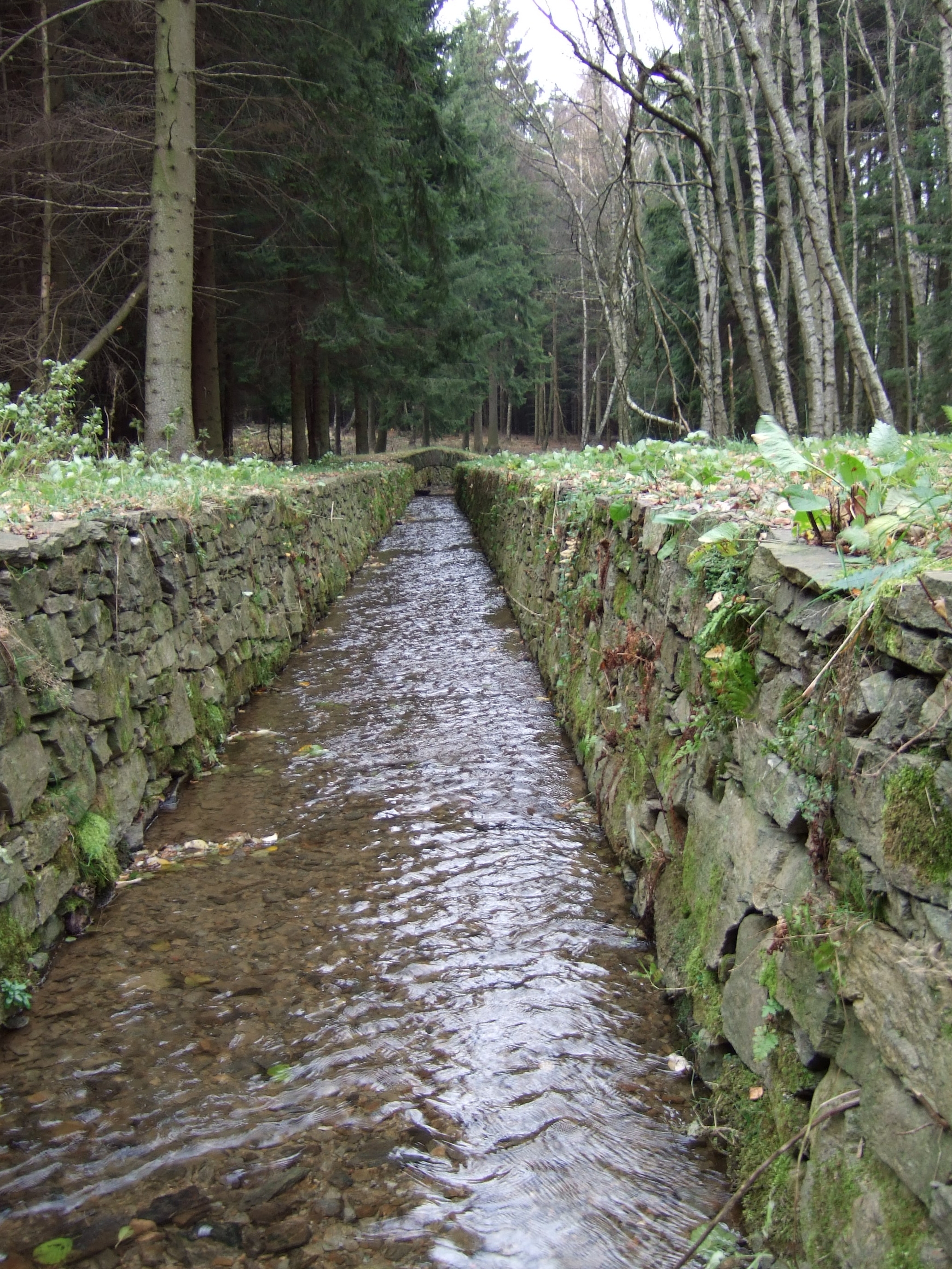 open Zethauer Kunstgraben between Helbigsdorfer Siedlung and Zethau, an aqaeduct for suppling mines with water to operate machines